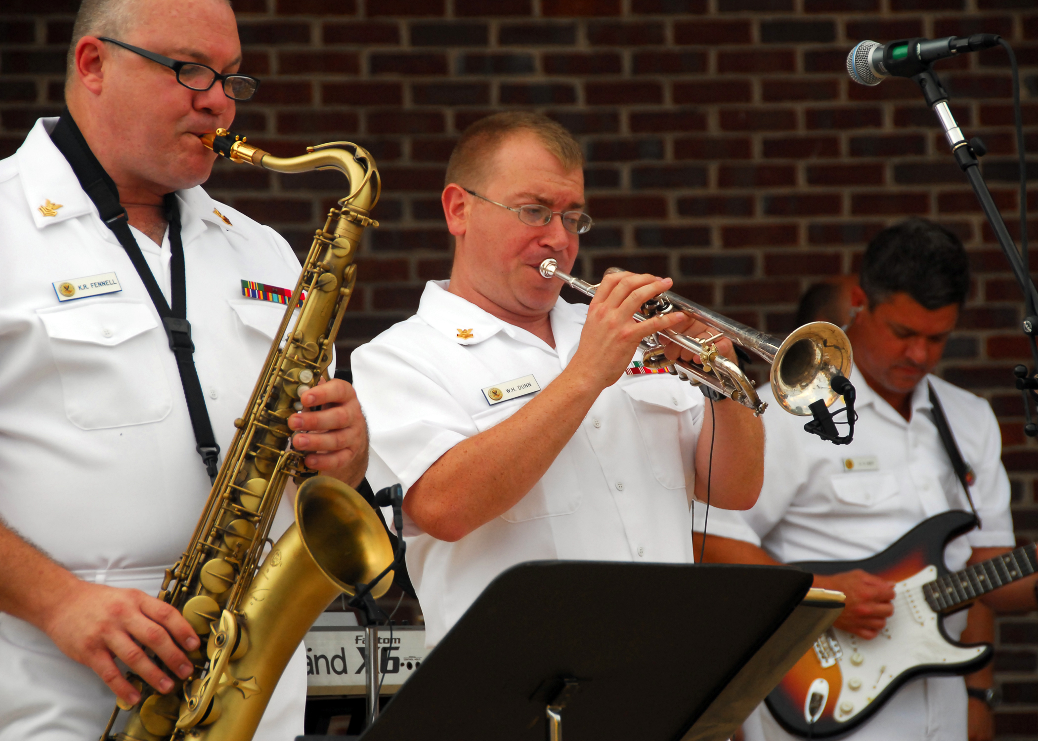 GERMANTOWN, Md. (Aug. 1, 2009) Members of the U.S. Navy Band rock ensemble "Cruisers" perform at the Blackrock Center for the Arts in Germantown, Md. The Washington based U.S. Navy Band is the Navy's premier musical organization, performing public concerts and military ceremonies.